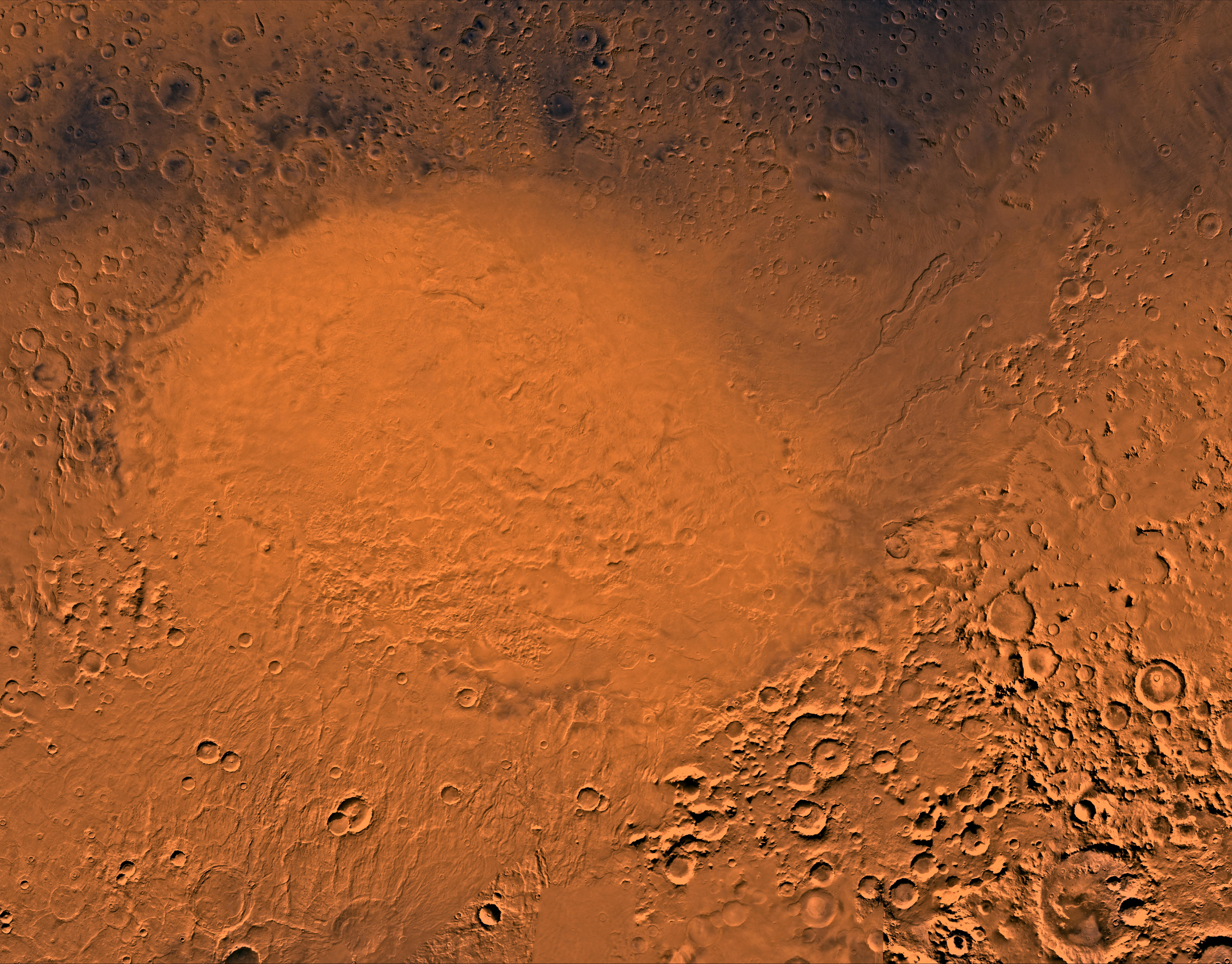 A colour view of the Hellas Planitia region on Mars created from images taken by the Viking orbiters.